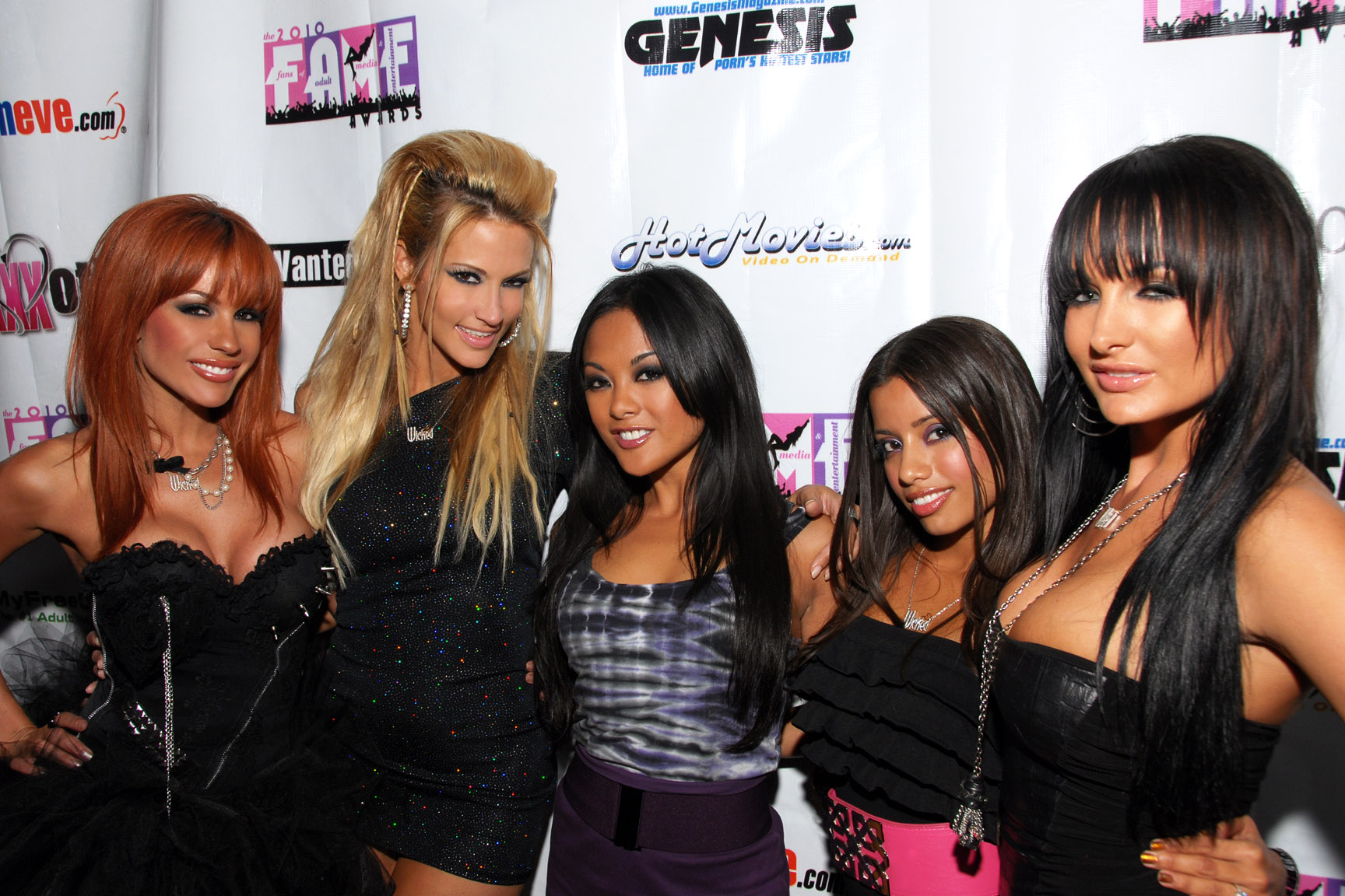 Wicked Contract Girls: Kirsten Price, Jessica Drake, Kaylani Lei, Lupe Fuentes, and Alektra Blue - Hollywood, CA on July 10, 2010 - Photo by Glenn Francis of